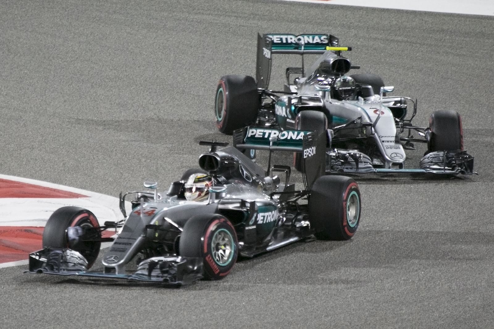 Rosberg and Hamilton at the 2016 Bahrain Grand Prix